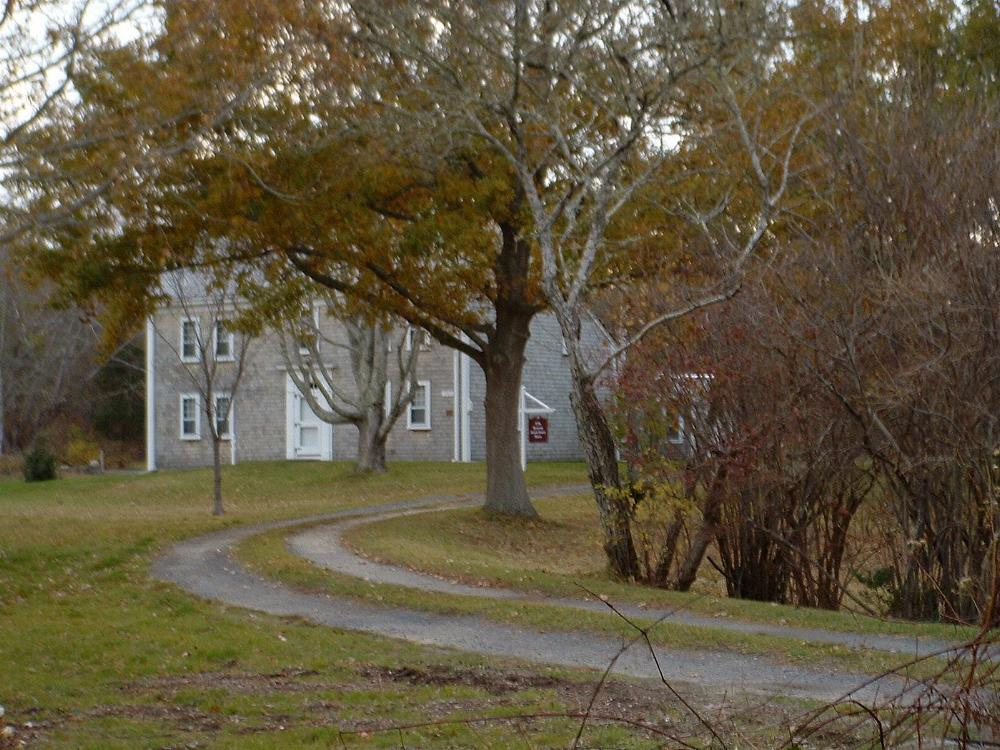 The Rev. Josiah Dennis Manse, Dennis, Massachusetts.